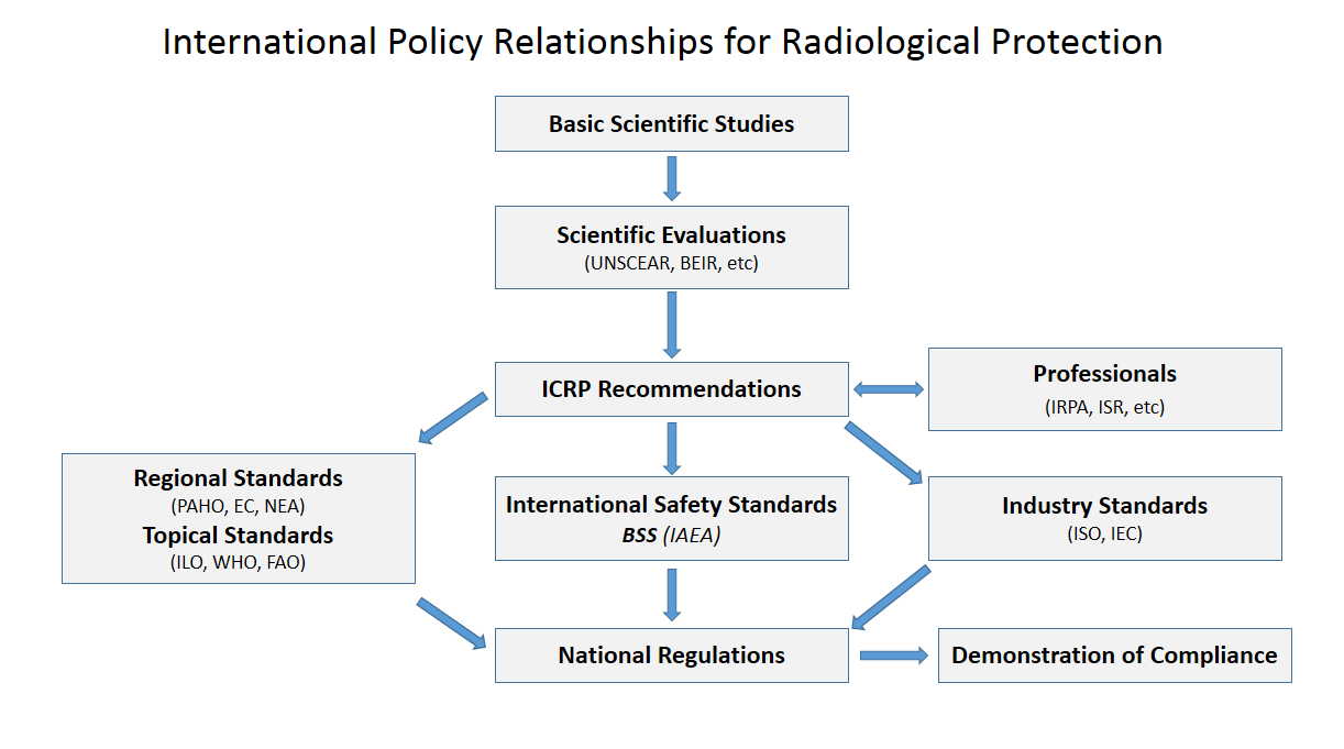 Schematic of international policy relationships in radiological protection. Based upon fig 3.1 ICRP publication 109, R H Clarke, and J Valentin